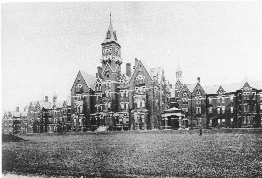 Danvers State Hospital, Danvers, Massachusetts, Kirkbride Complex, circa 1893. Architect Nathaniel Jeremiah Bradlee (1829-1888) of Boston.